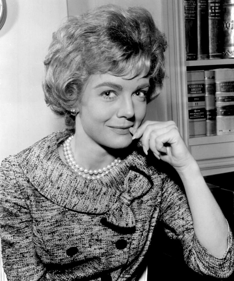 Photo of actress Joanna Barnes from her role in the television program 21 Beacon Street.